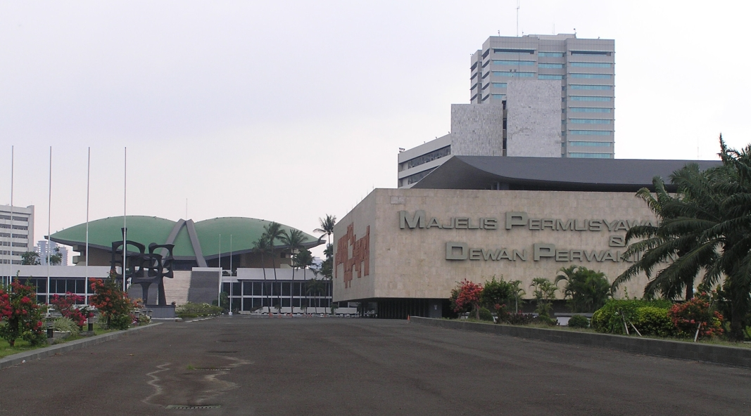 The legislative building complex in Senayan, Jakarta